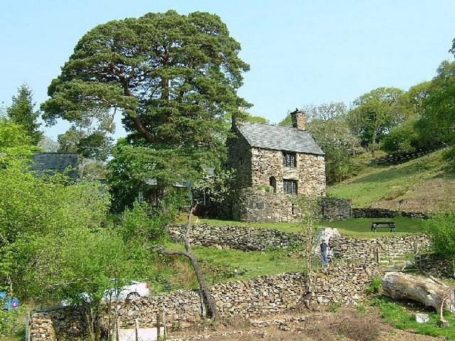 Plas y Dduallt Manor House on the foothills of Moelwyn Bach above Maentwrog. One of the oldest inhabited houses in Wales, it dates back to the 15th century. Website. The halt Campbell's Platform of the Ffestiniog Railway was built to serve the house.